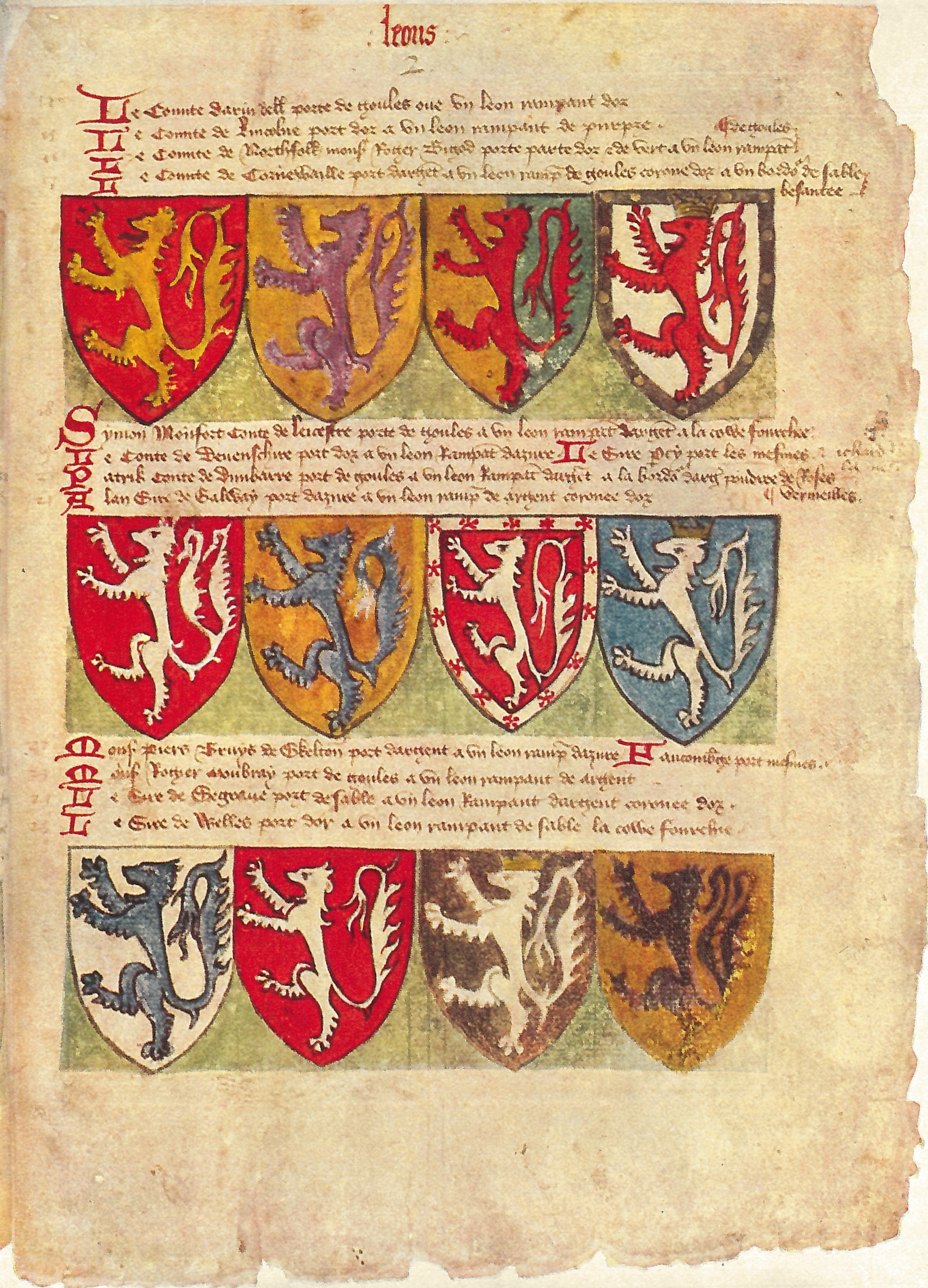 Page from Thomas Jenyns' Book, an ordinary of arms compiled in c. 1410: British Library MS Add. 40851. The page shows 12 coats of arms each featuring a lion rampant as its main charge.